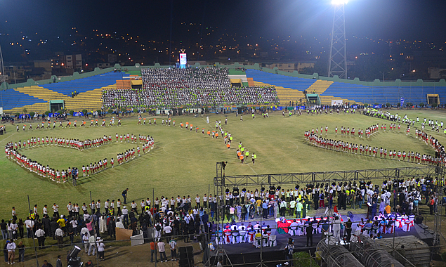 Reales Tamarindos